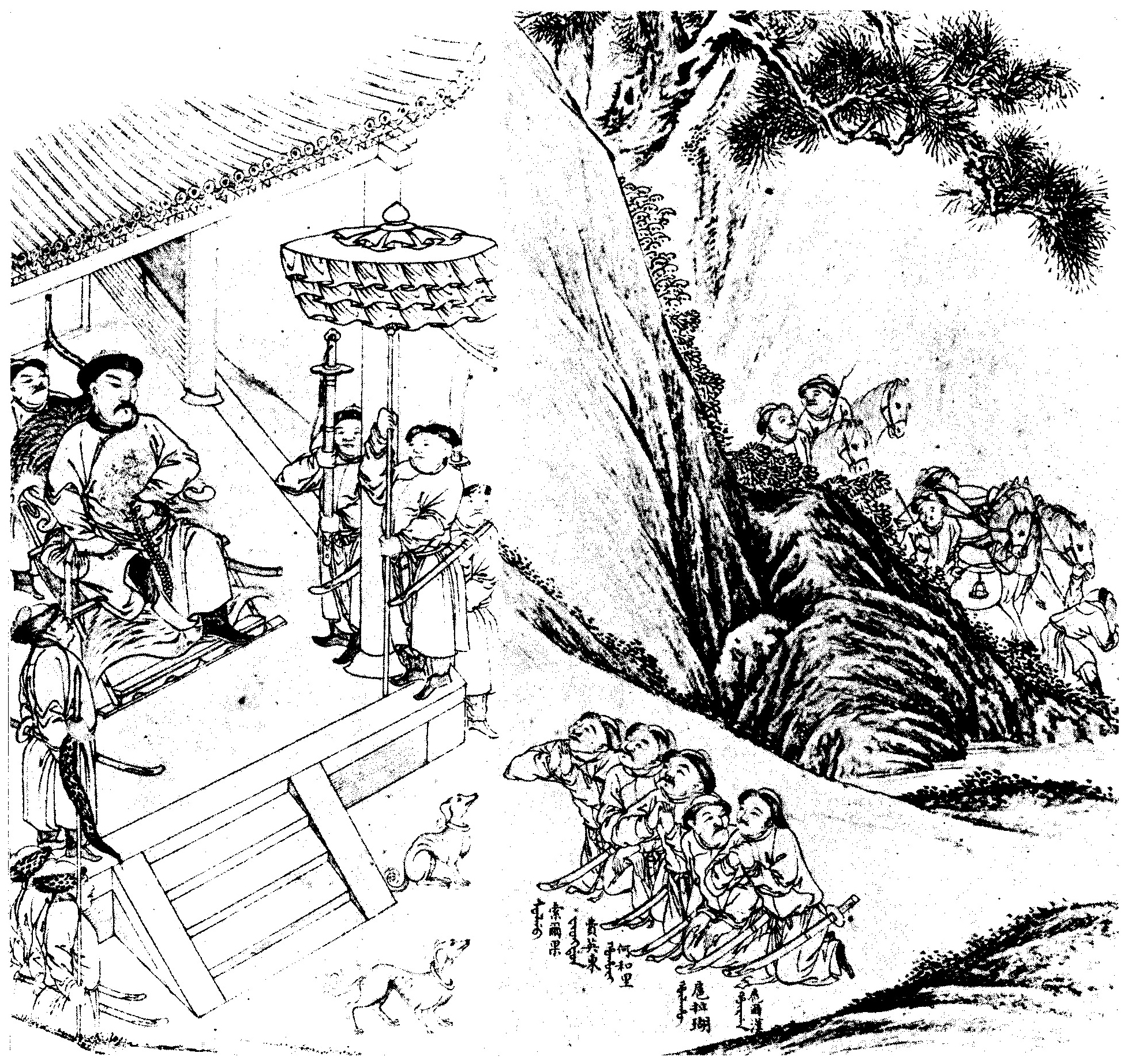 三部長率眾歸降